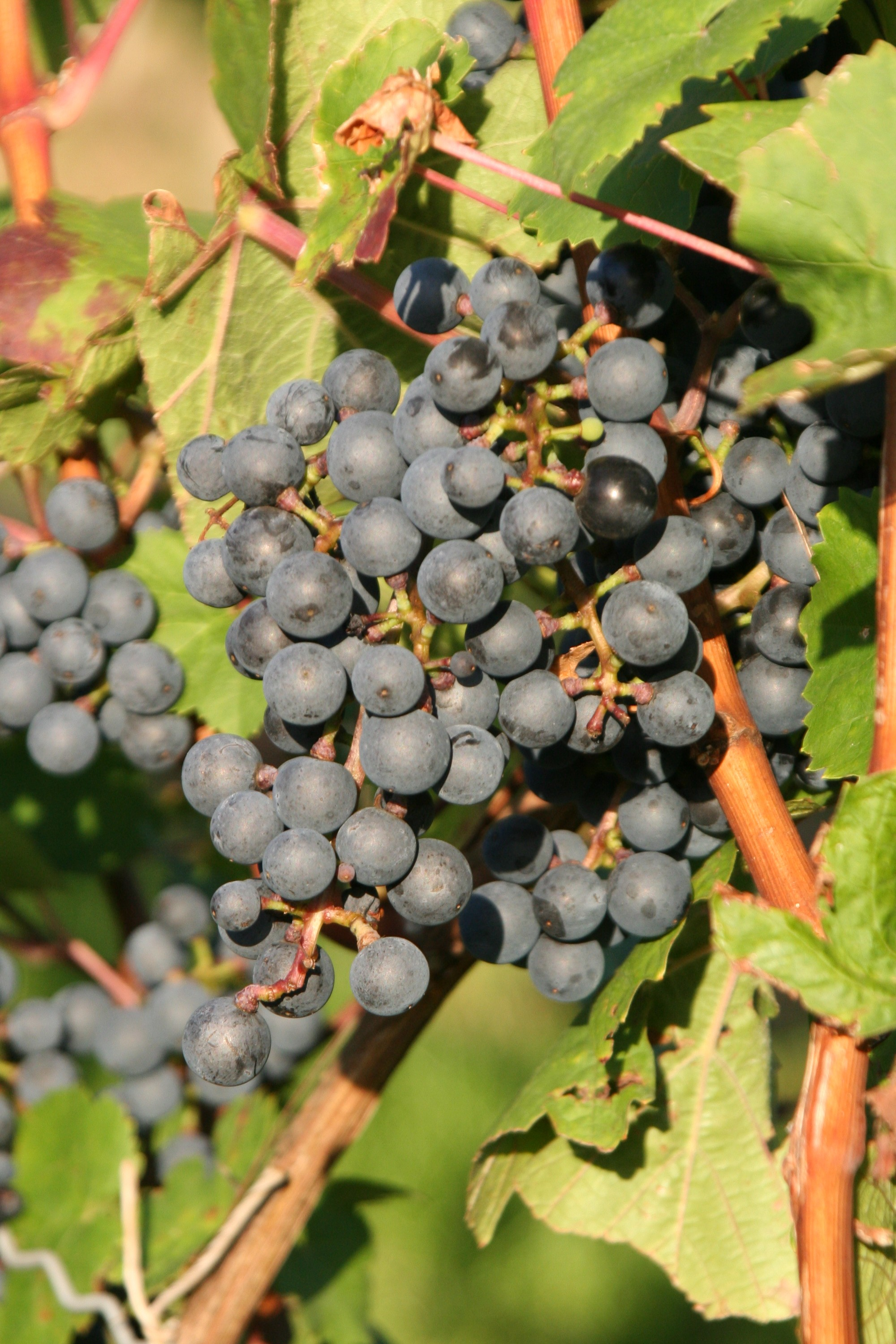 Grapes and leaves of the grape variety Cabernet Dorsa, photographed at the viticulture trail on the Schemelsberg hill in Weinsberg